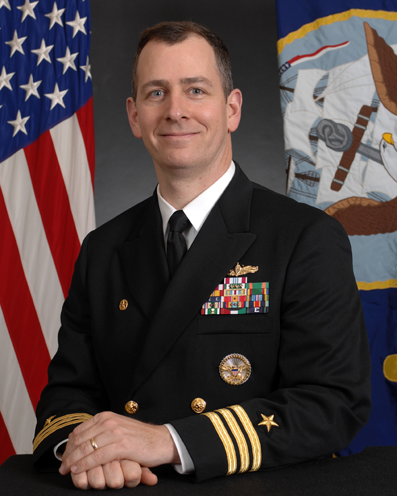 Cmdr. M. Tate Westbrook